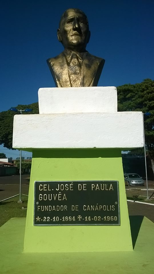 Bust of Cel José de Paula Gouvêa.